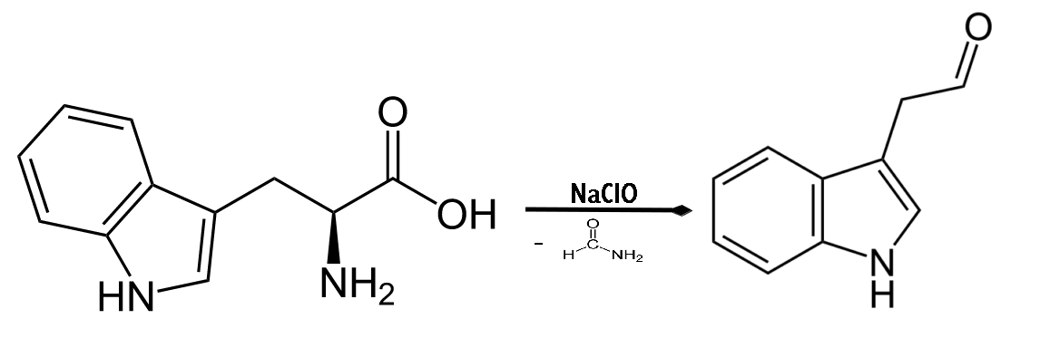 Indole-3-acetaldehyde synthesis from tryptophan according to Langheld Method[1]